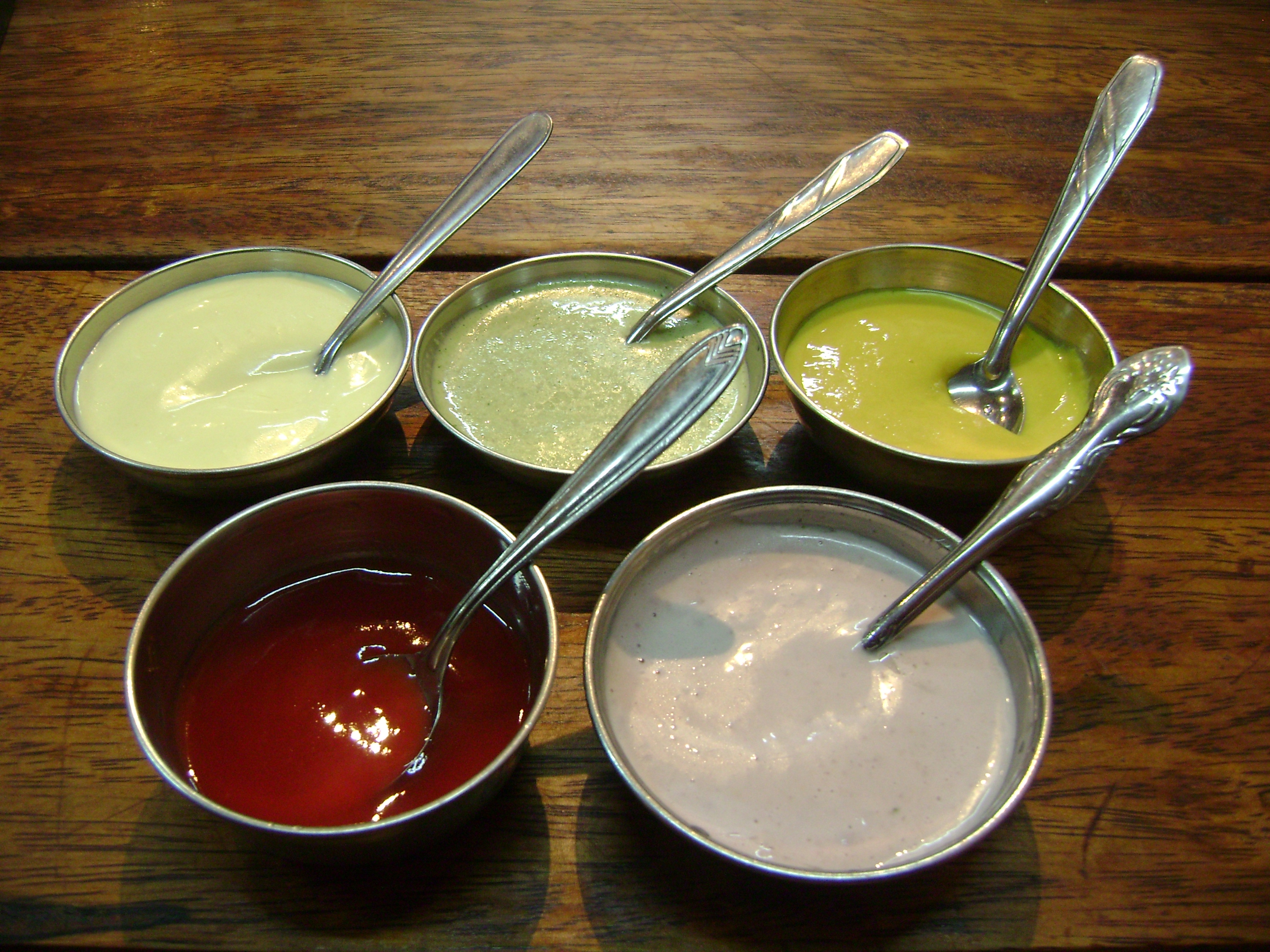 Some of the creams served with 'Pollo a la Brasa': (1) up, from left to right: mayonnaise, ocopa sauge and mustard; (2) down, from left to right: ketchup and olive cream